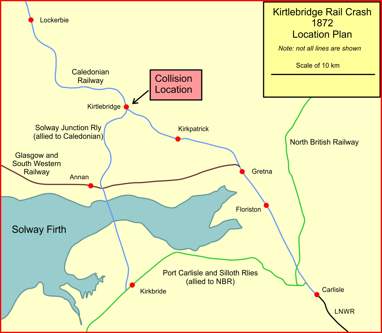 Location plan for the railway accident at Kirtlebridge Dumfriesshire October 1872